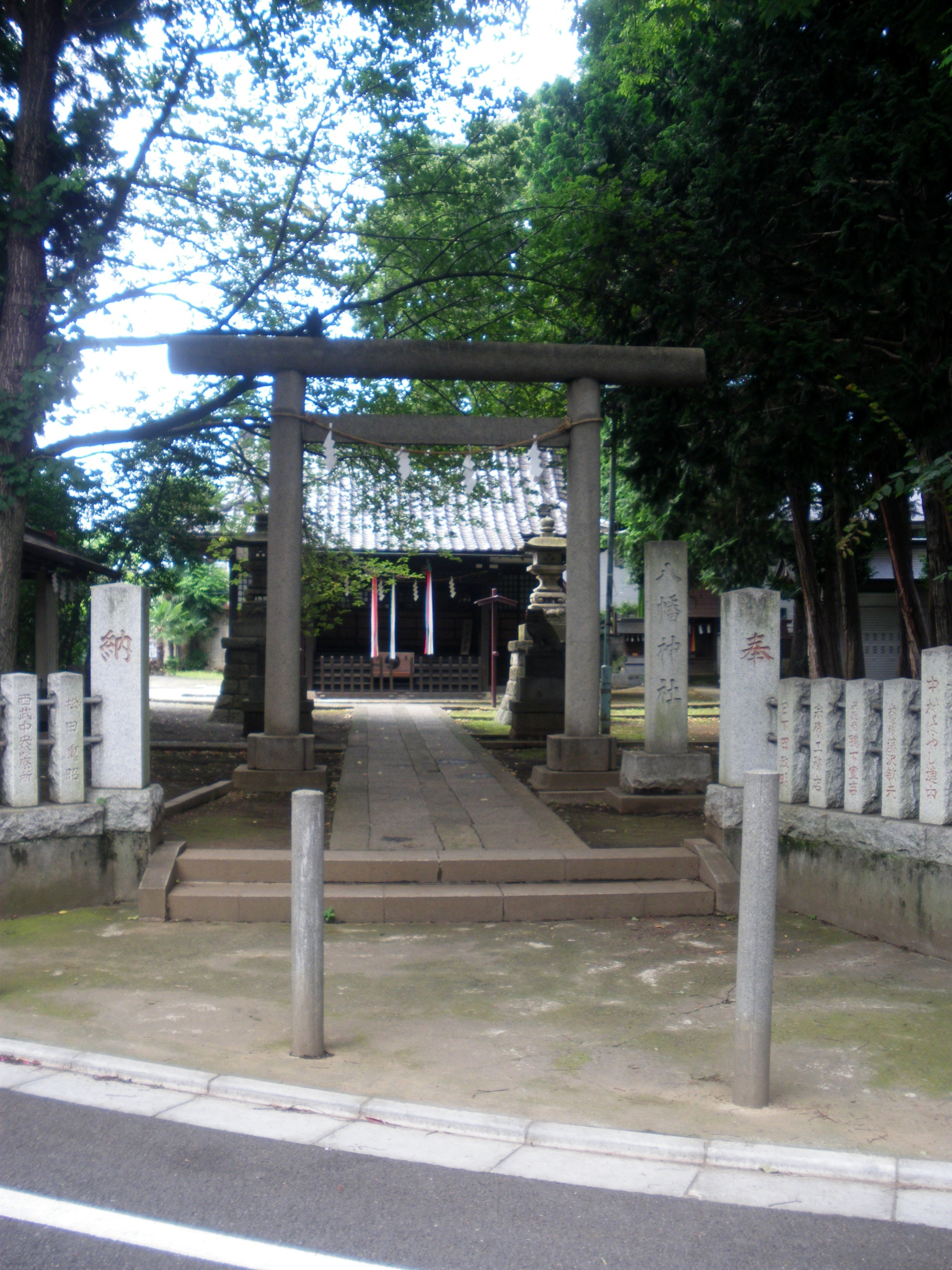 Hachiman Jinja(Nakamura,Nerima,Tokyo)